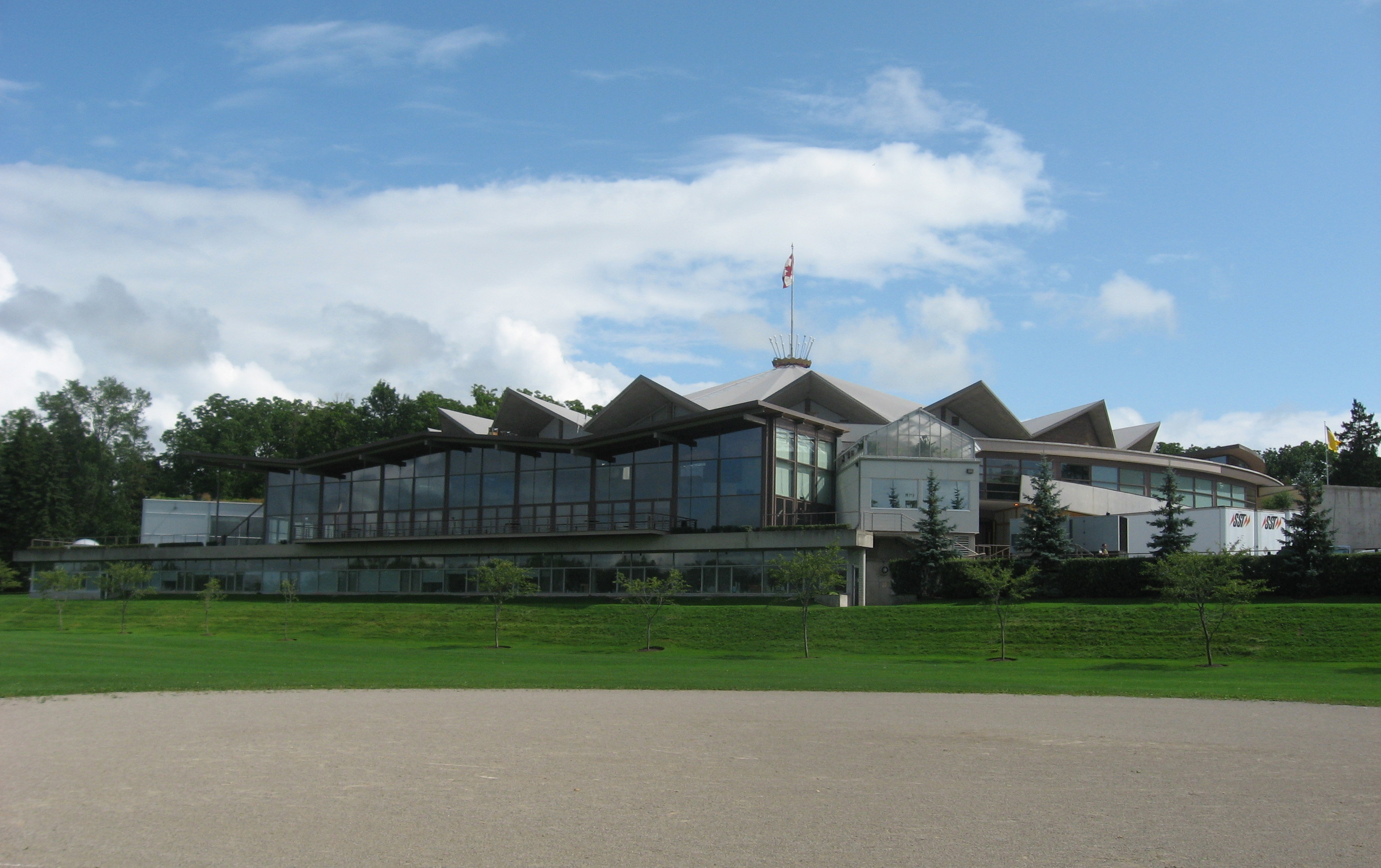 Stratford Festival Theatre, taken 23 August 2009.